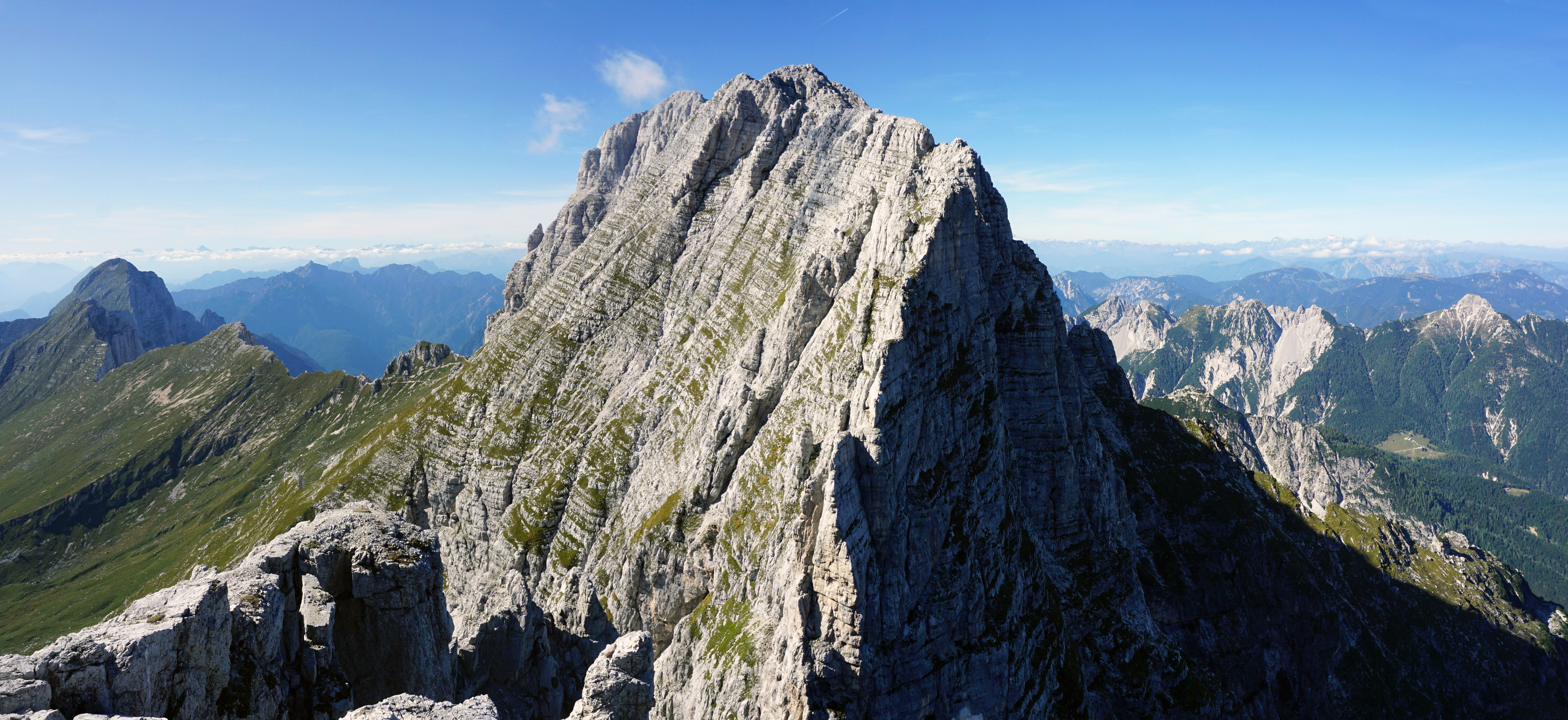 Modeon del Montasio seen from Cima di Terrarossa, Friuli-Venezia Giulia, Italy.